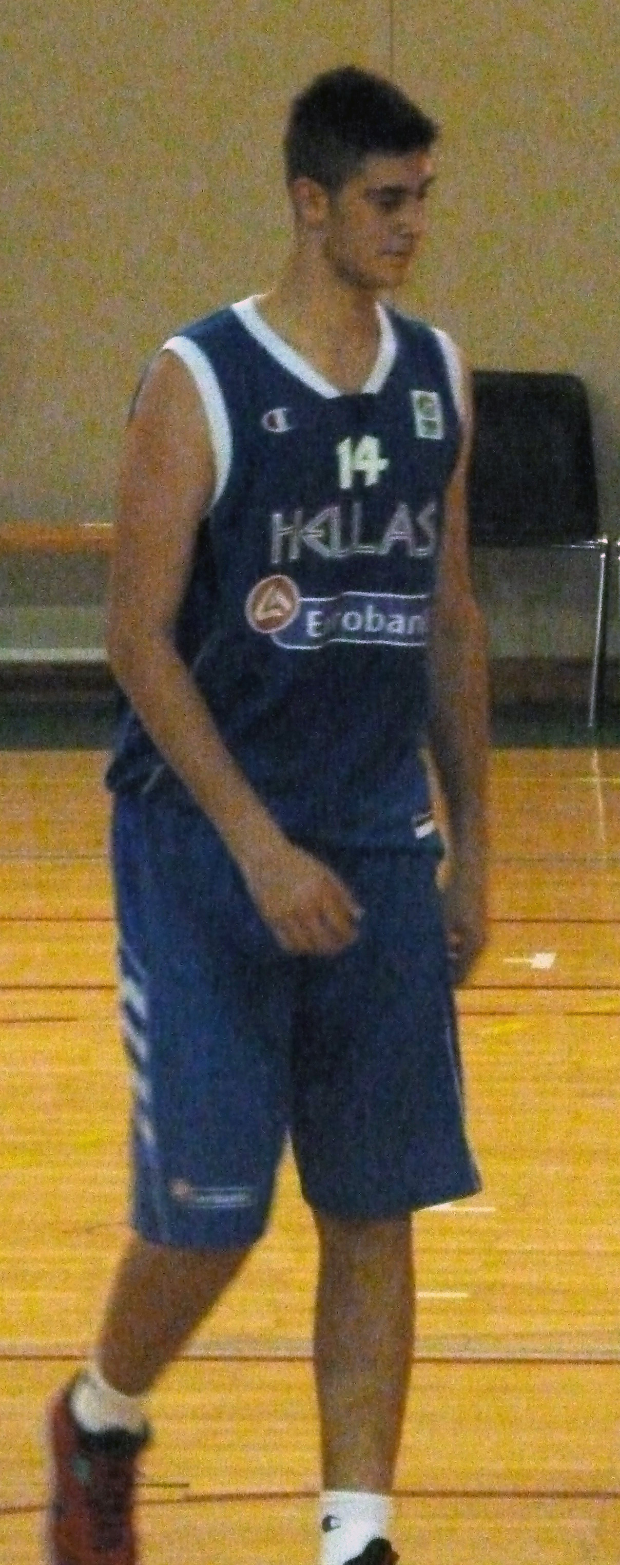 Greek basketball player Georgios Papagiannis at the international U16 tournament in Riom, France.